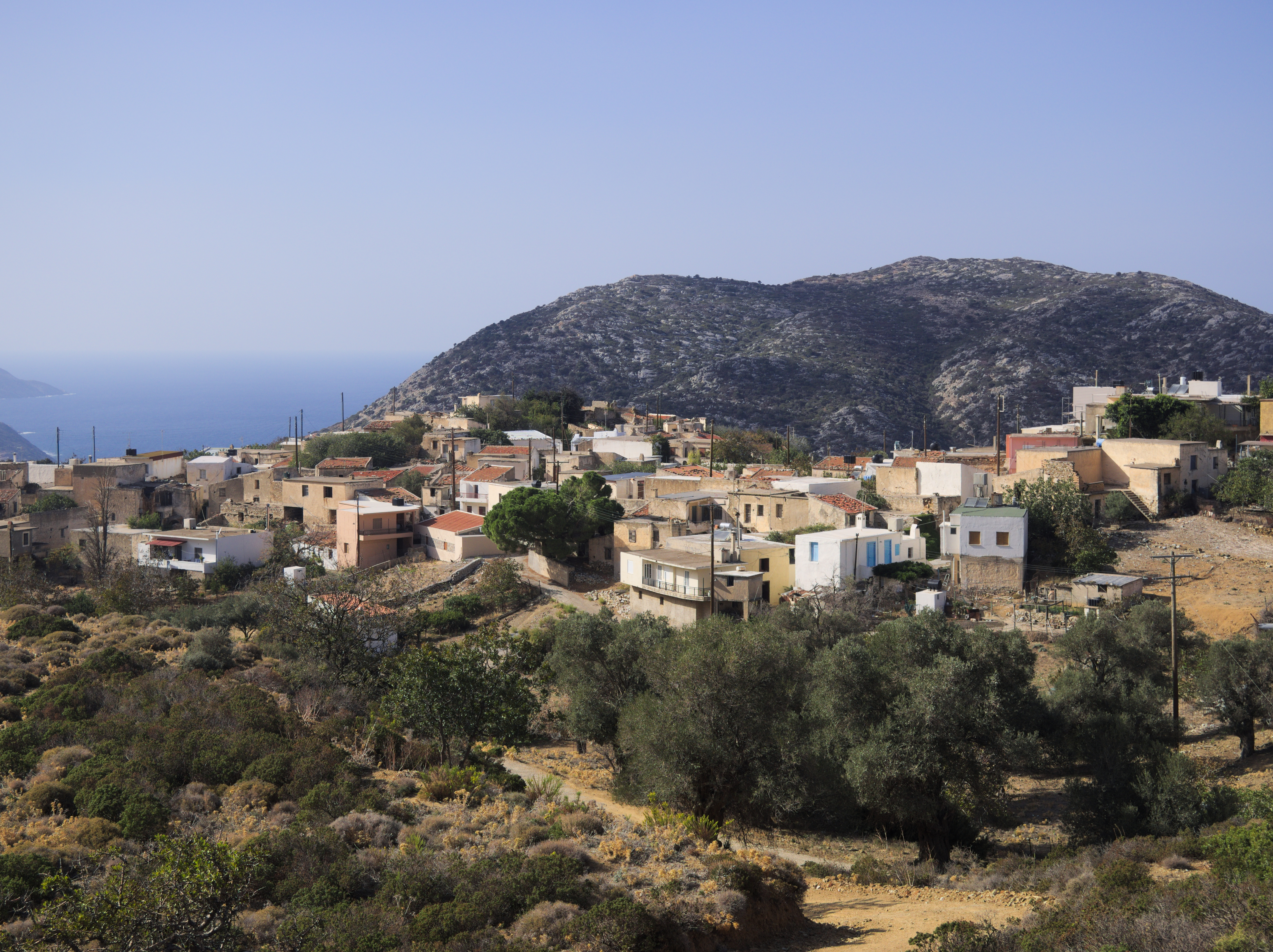 View of Achlada, Malezivi, from near the cemetary of the village.